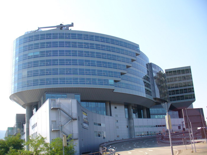 VTC Mercedes-Benz Werk Stuttgart-Untertürkheim - Van Technology Center